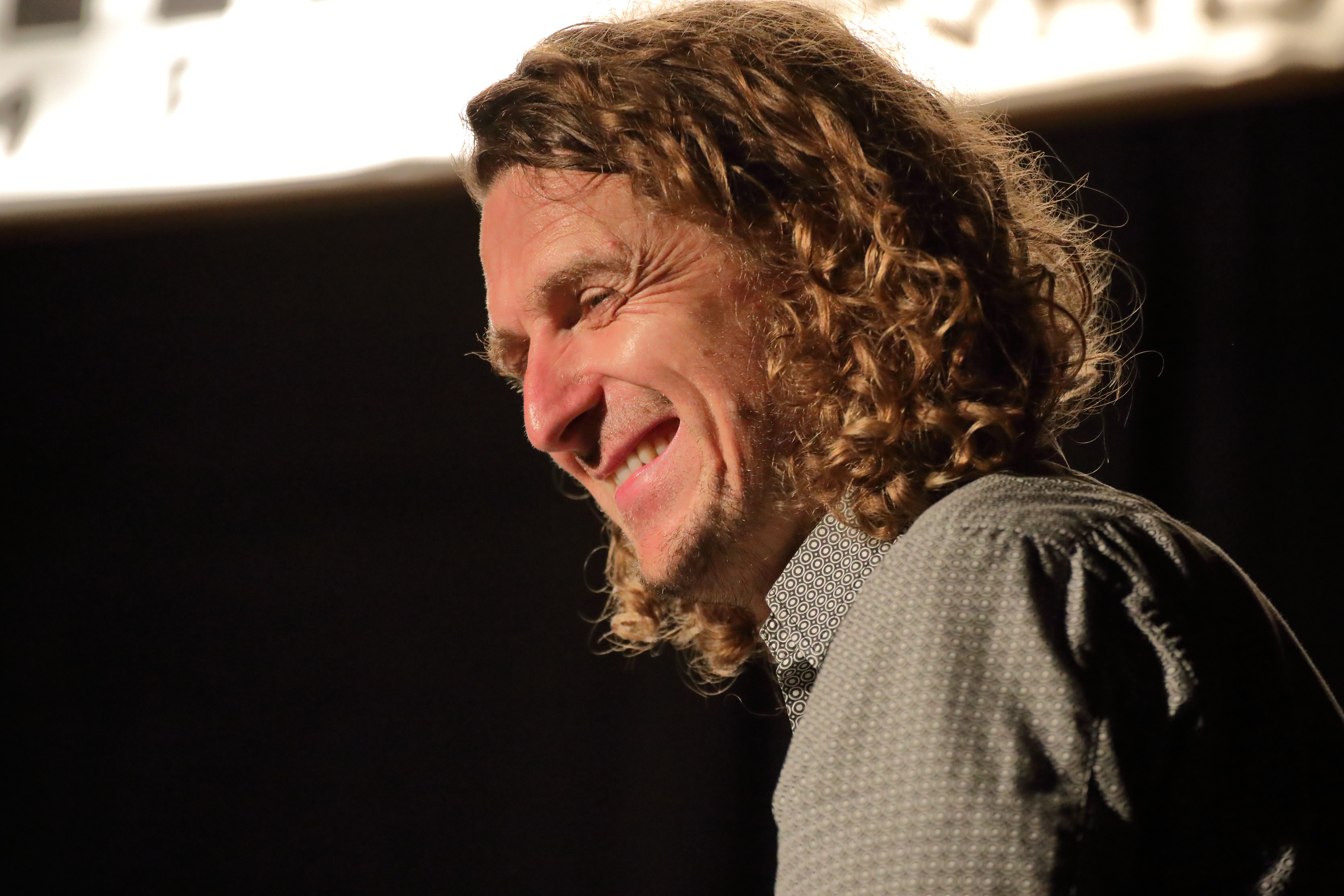 David Helbock´s Random Control at INNtöne Jazzfestival 2019. Random/Control are David Helbock (p, elctr, perc), Andreas Broger (sax, cl, reeds) & Johannes Bär (tub, tr, var).